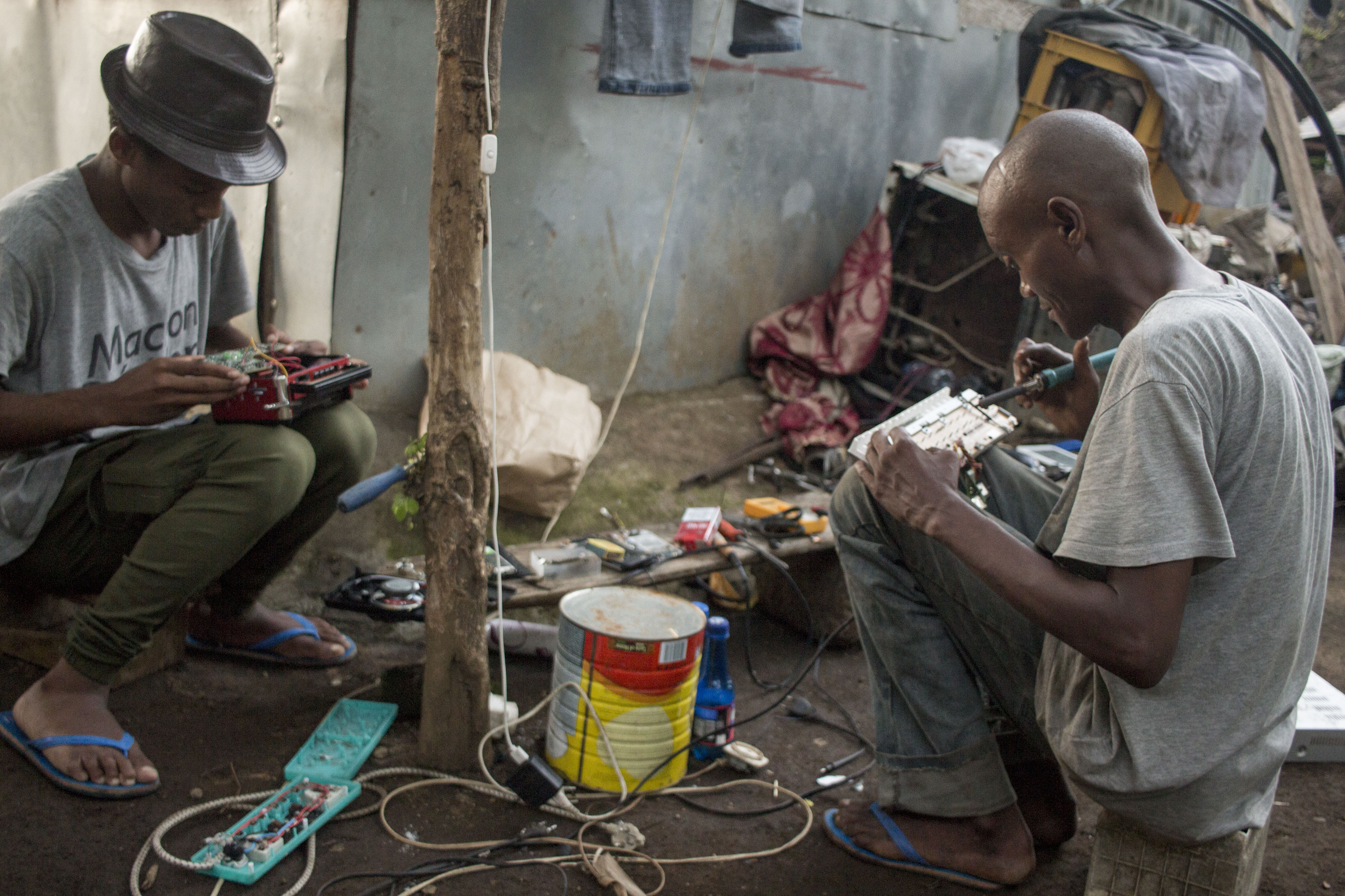 he repairs every electronical device - from Laptops to radios, even motocycles. This is an image of "African people at work" from Comoros